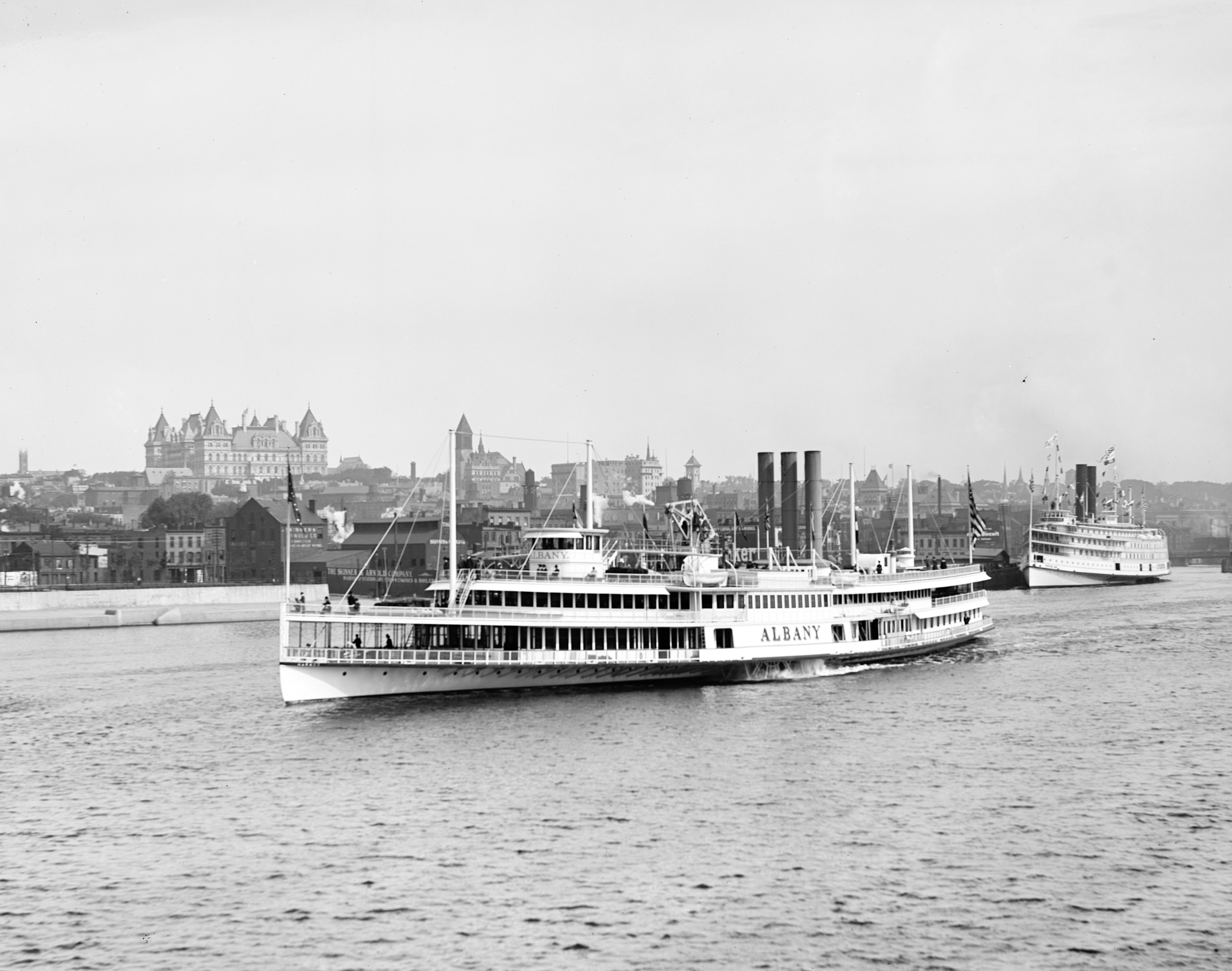 The Steamer Albany, of Hudson River Day Line, on the Hudson River at Albany, New York, United States. In the background can be seen the New York State Capitol and Albany City Hall.